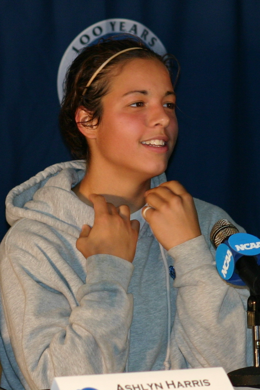 UNC Tar Heels (women) beat UCLA Bruins 2-0 on goals from Casey Nogueira and Heather O'Reilly in the semifinal of the 2006 Women's College Cup on Friday, December 1st at SAS Soccer Park in Cary, NC